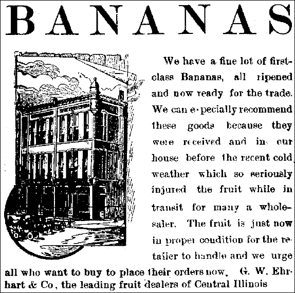 Bananas - First class - 1891 imports